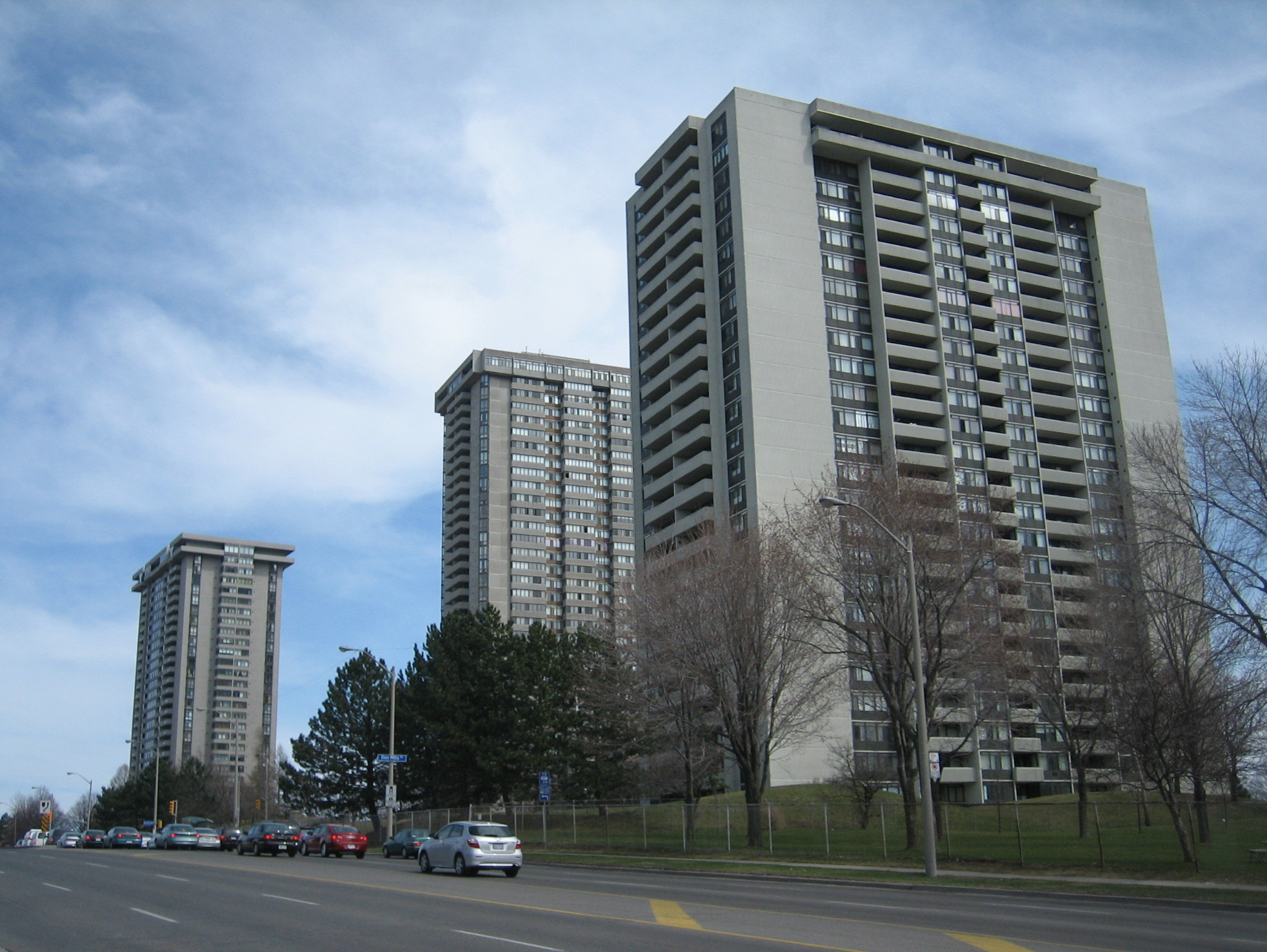 Apartments in Don Valley Village